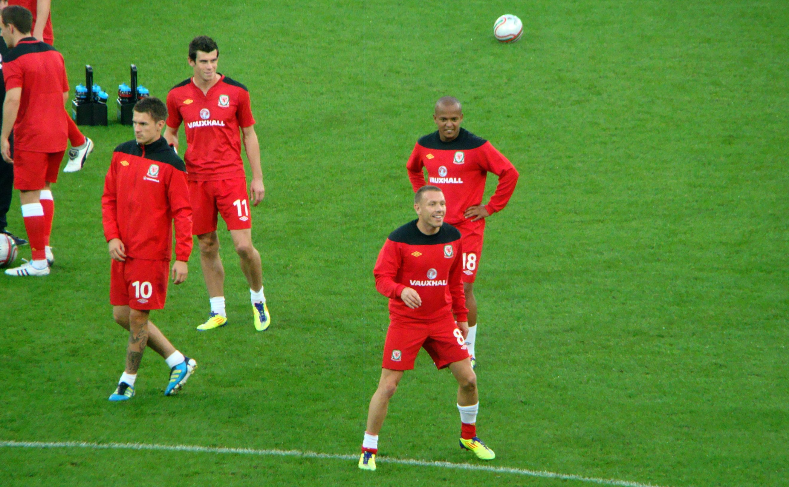 Aaron Ramsey, Gareth Bale, Robert Earnshaw and Craig Bellamy of Wales. 02/09/11 Wales V Montenegro, Euro 2012 qualifying, Cardiff City Stadium, Cardiff, Wales